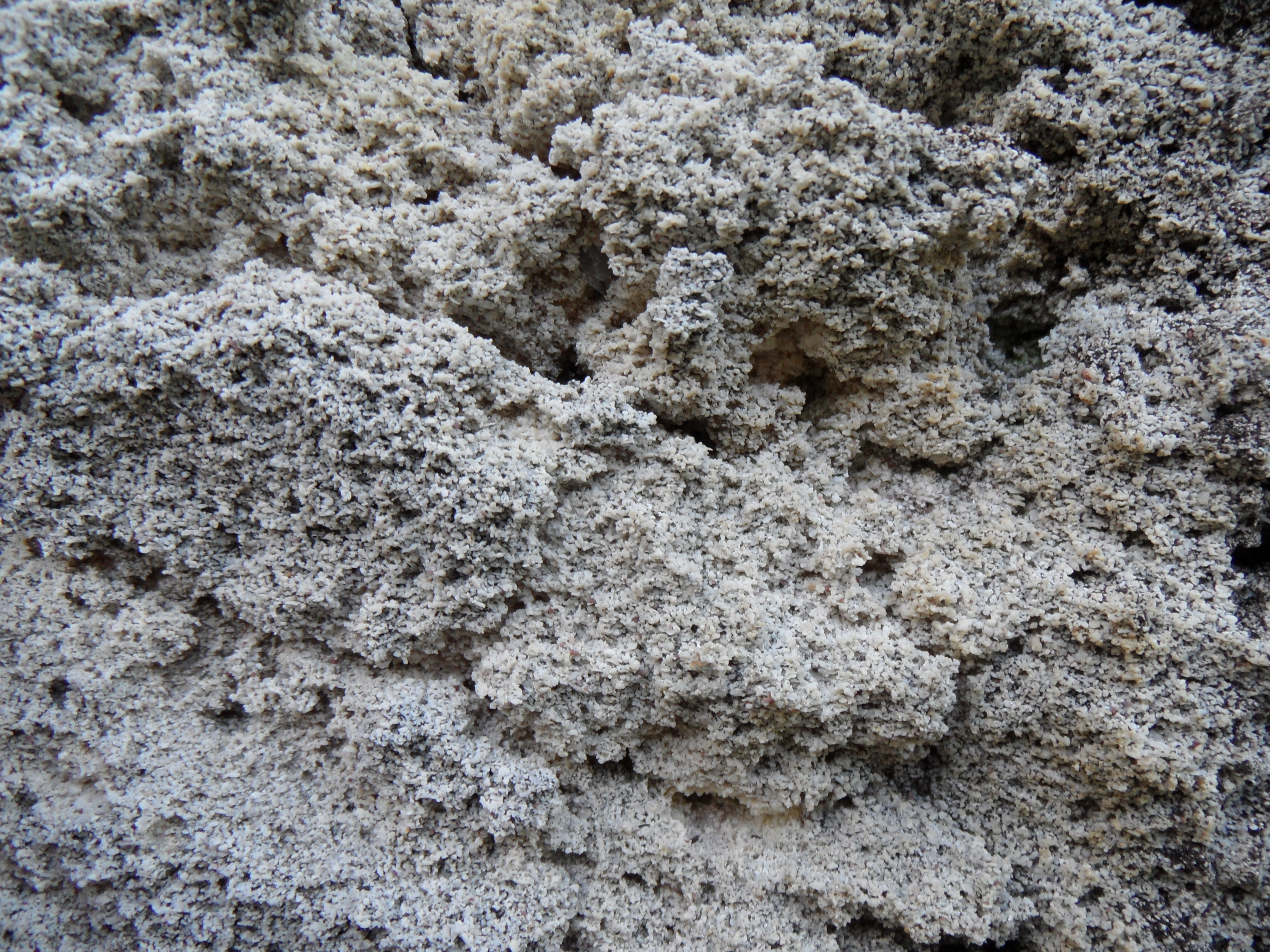 Calcarenite, Anderson Road, Lord Howe Island